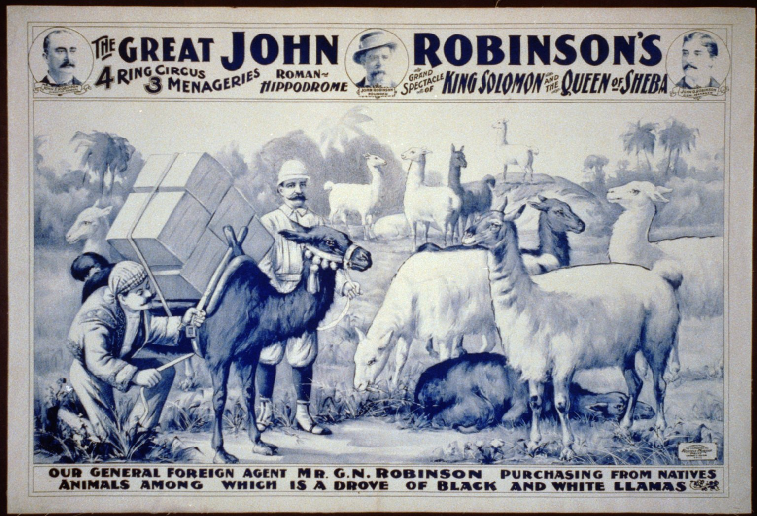 Title: The Great John Robinson's 4 Ring Circus...Our General Foreign Agent Mr. G.N. Robinson purchasing...a drove of black & white llamas Abstract/medium: 1 print (poster) : color ; 71 x 105 cm.